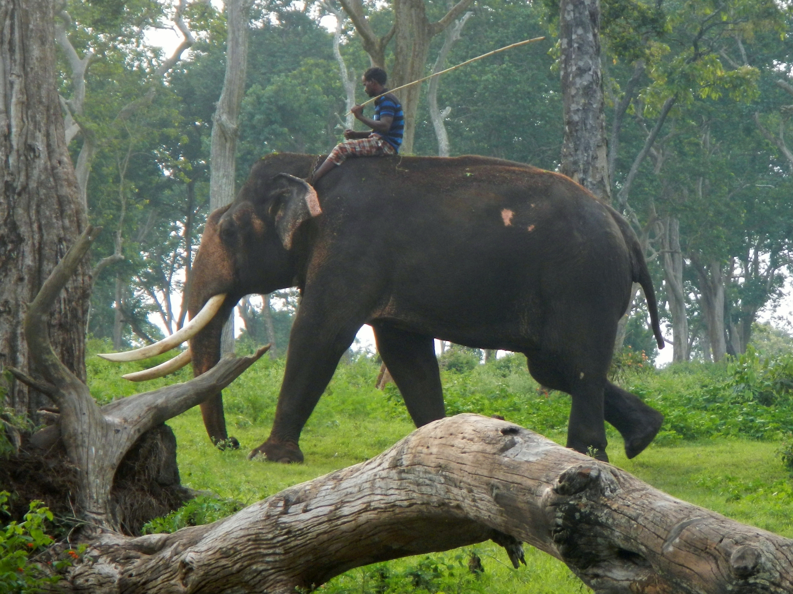 Kumki elephant used to bring wild rouge elephants under control or chase them away,with its mahout on top,Mudumalai Tiger reserve